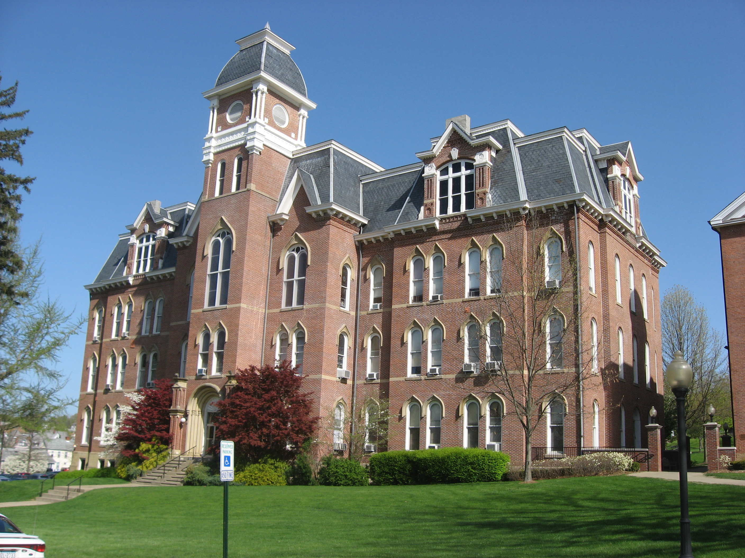 Front and side of Miller Hall on the campus of Waynesburg University in Waynesburg, Pennsylvania, United States. Built in 1874, it is listed on the National Register of Historic Places.